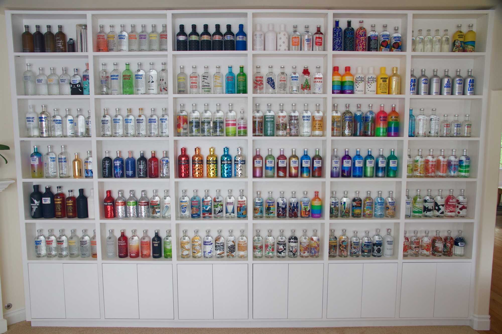 Bottles, skins and merchandise.